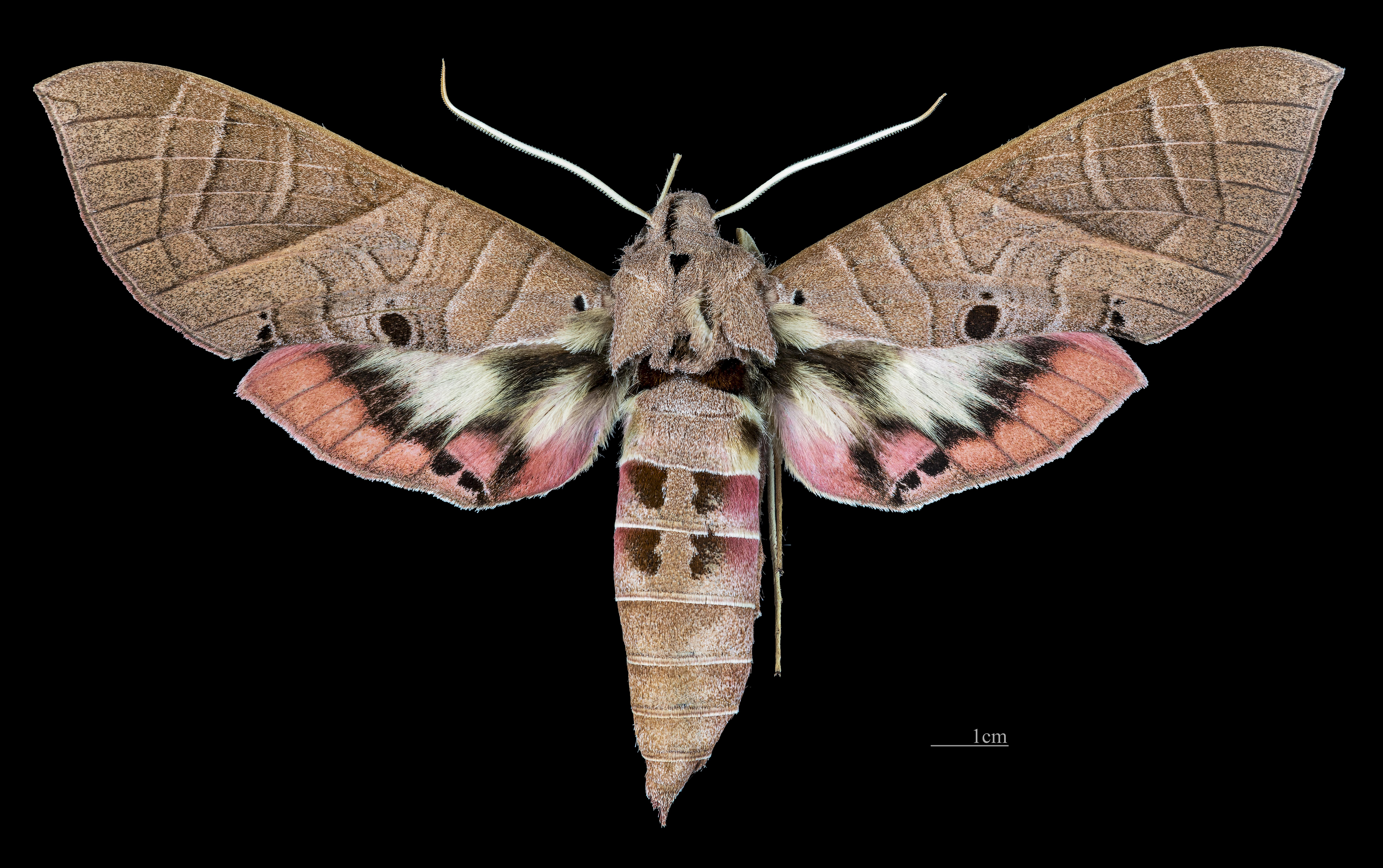 Eumorpha adamsi - Dorsal side Collection of the Mathematician Laurent Schwartz